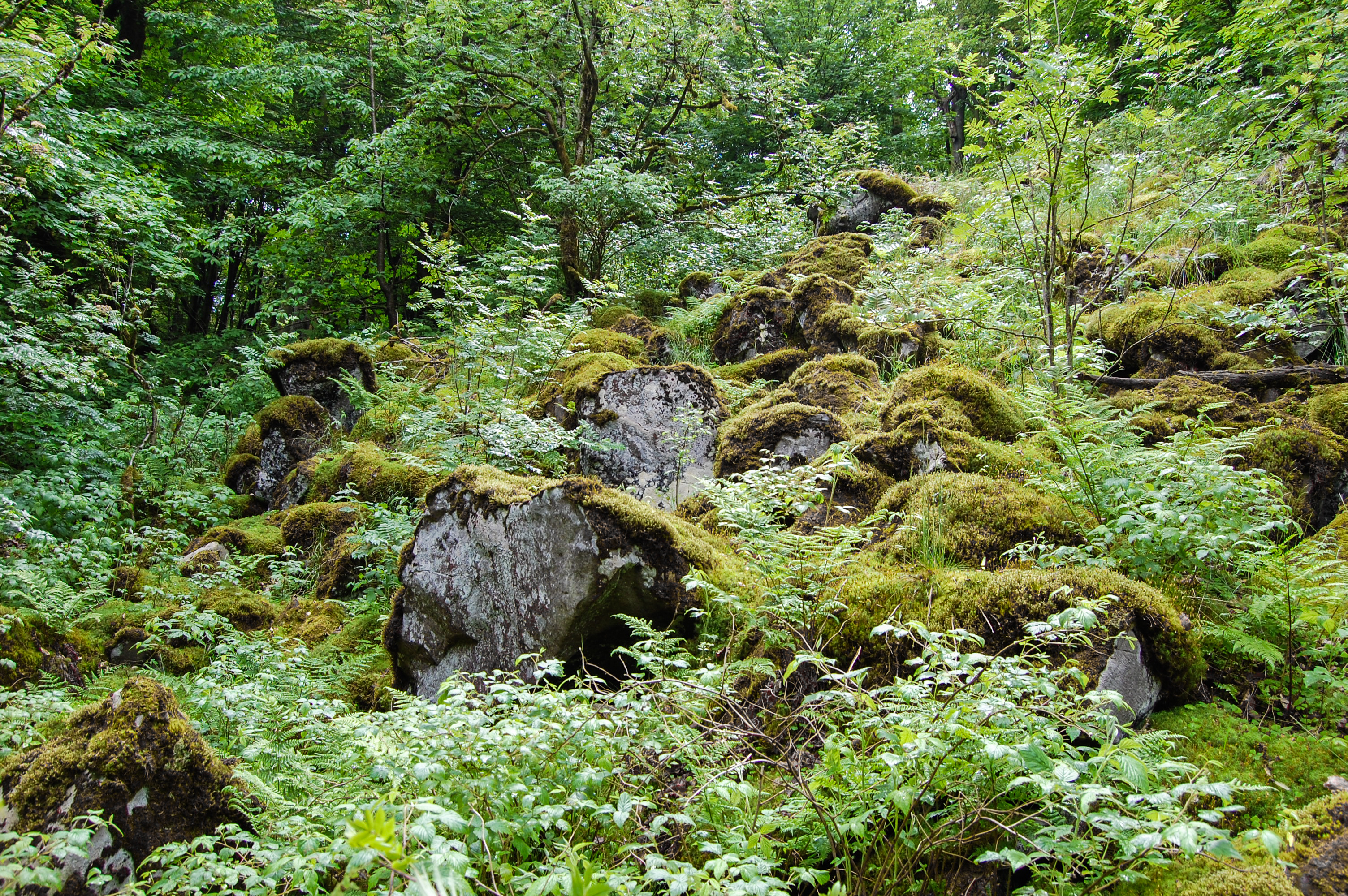 Basalt rocks on the northern slope of Taufstein mountain; "Blockfelder am Taufstein" nature reserve in Vogelsbergkreis, Hesse, Germany